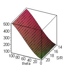 The figure shows the effect of choosing the correctly normalized entropy, instead of the empirical entropy for the computation of DU/DS